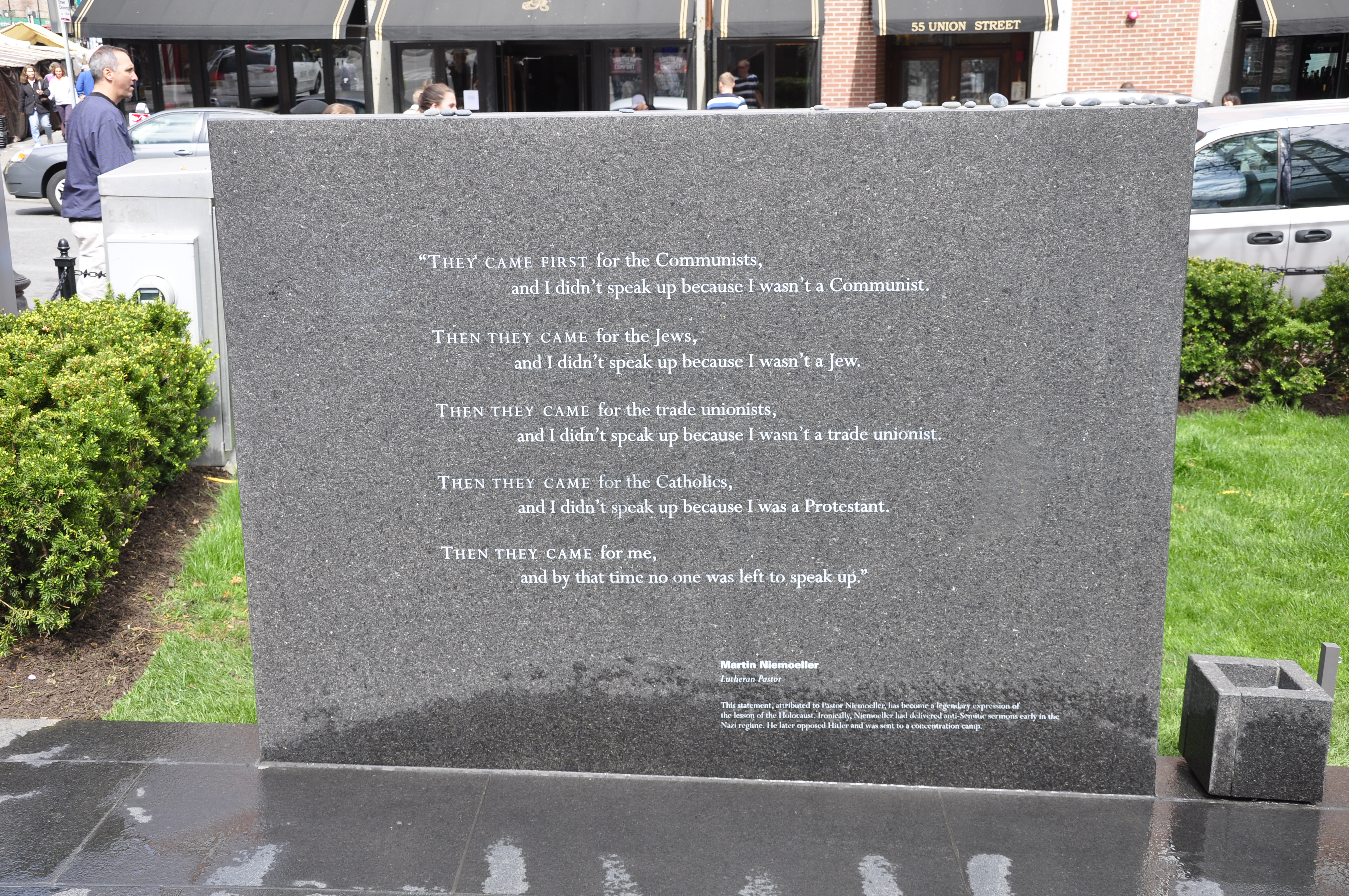 New England Holocaust Memorial